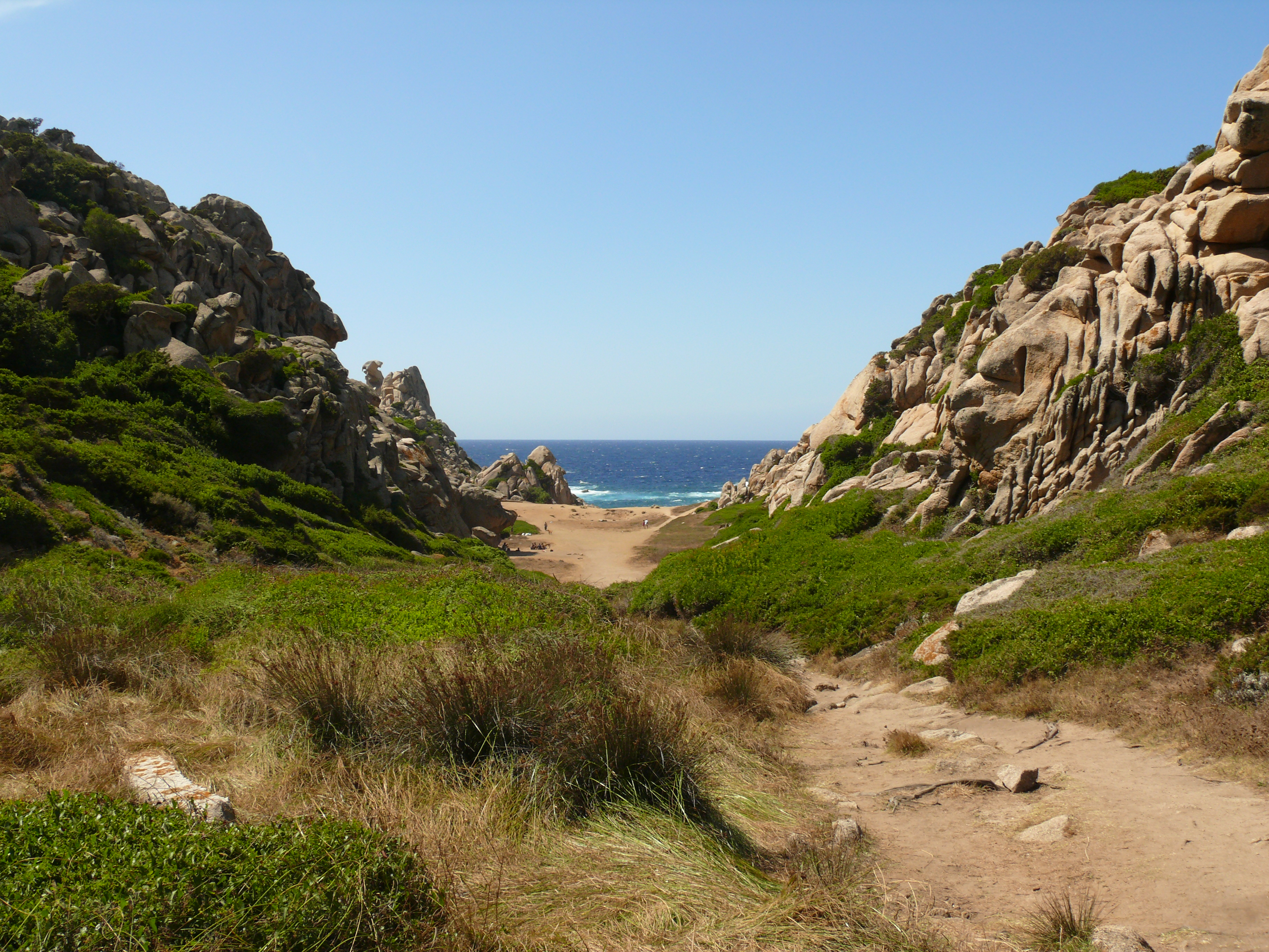 Moon Valley - Capo testa, Santa teresa di gallura (sardinia)